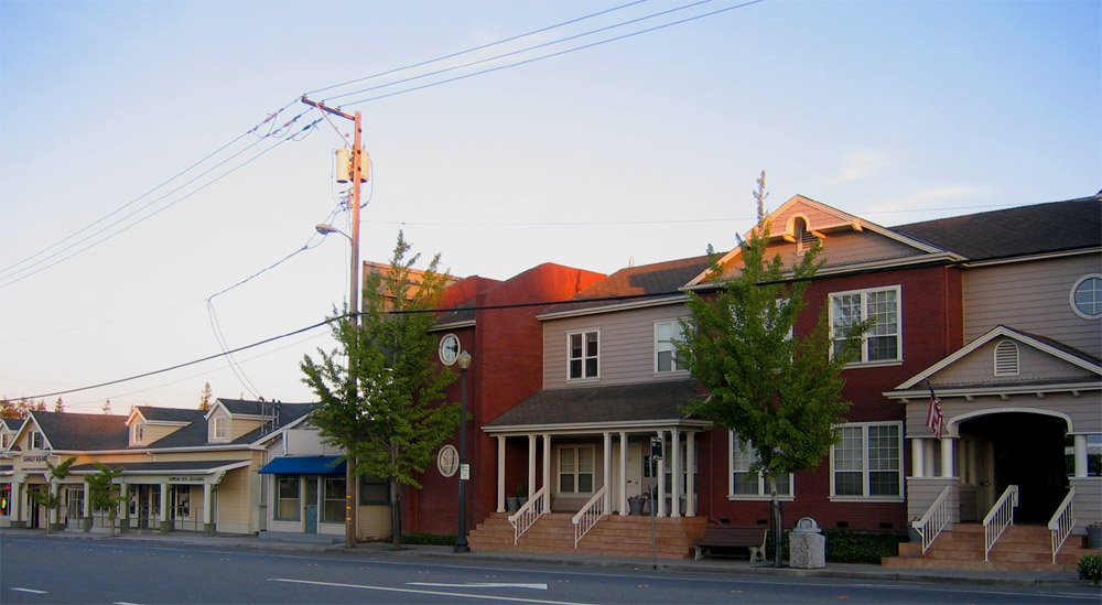 Old Monta Vista downtown near the Post Office. Yes, well it does look like this today but how in the heck does this picture even remotely hint to what downtown MV looks like. If you need this for your real estate magazines then I guess that's fine but it's kind of mis representative.